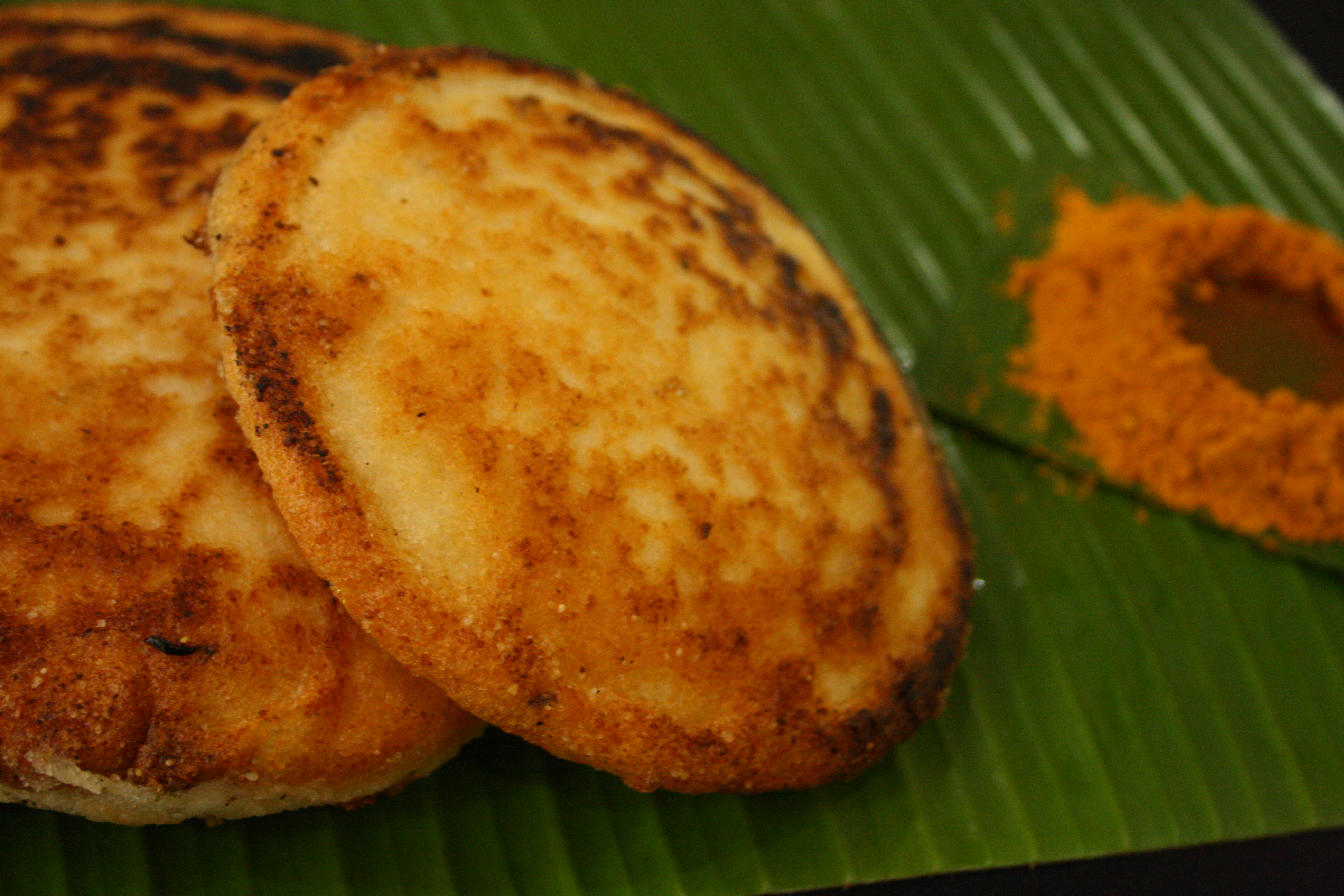 DIBBA ROTTI (Dibba rotti is a little known bread from Andhra Pradesh bought to the limelight by Aditya) Yield: 8 rottis Urad dal 200 grams Idly Rava 400 grams Cumin seeds 2 grams Green Chilly 2 no. Ginger 3 grams Salt To taste Oil 50 millilitres Method: • Soak urad dal and idli rava separately in water for 2 hours. • Grind urad dal into a smooth paste. • Mix the urad dal paste with idly rava. • Add salt, cumin seeds, finely chopped green chillies and ginger to this mixture. • In a heavy bottom vessel add 3 tsp of oil and pour in two ladles of batter. • Cover it with a plate and allow it to get roasted for 5 minutes. • Remove lid and flip roti over to roast the other side. • Serve hot with gun powder. This was made by a student of the Department of Culinary Arts, WGSHA, Manipal University.